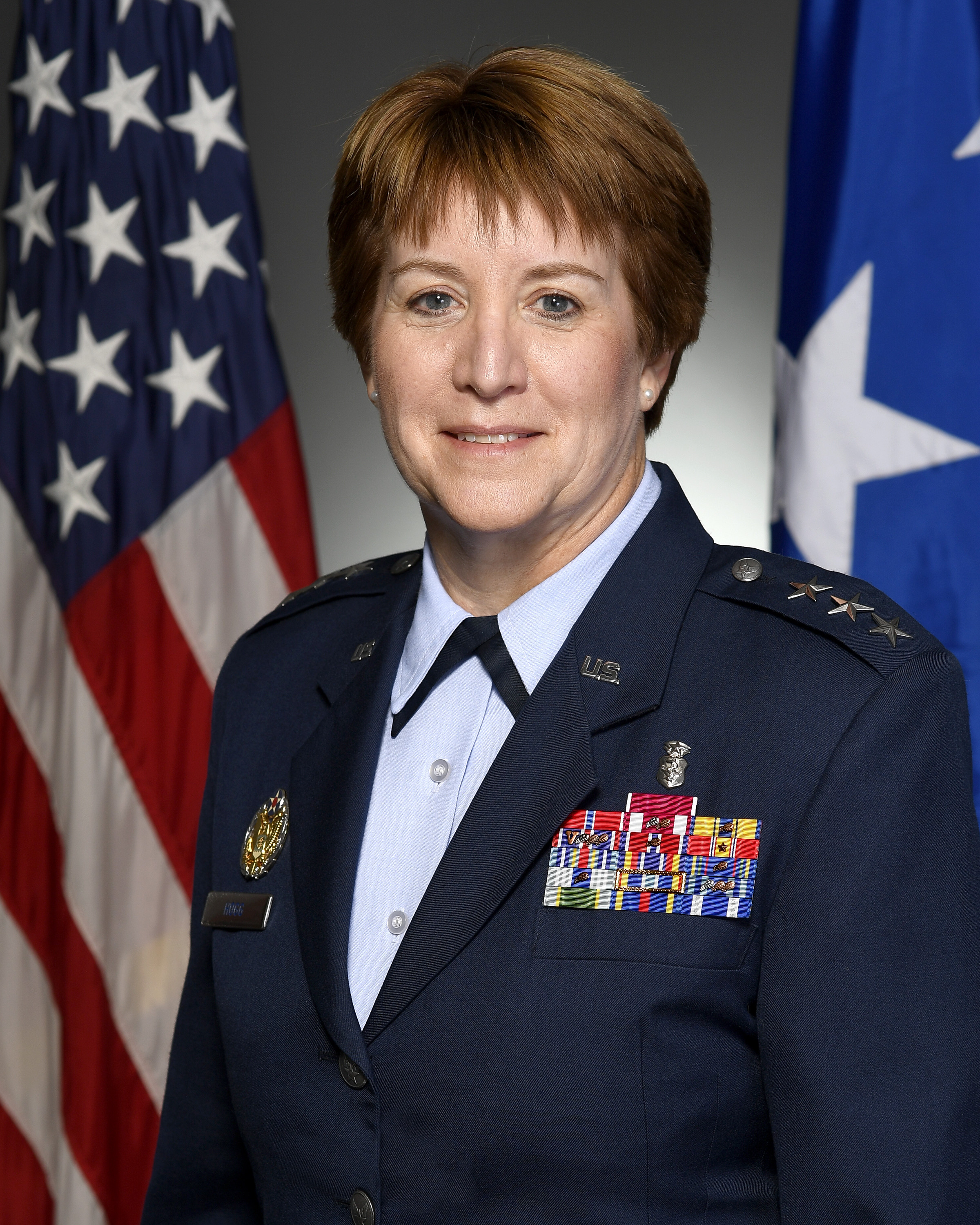 Lt. Gen. Dorothy A. Hogg is the Surgeon General, Headquarters U.S. Air Force, Arlington, Virginia.